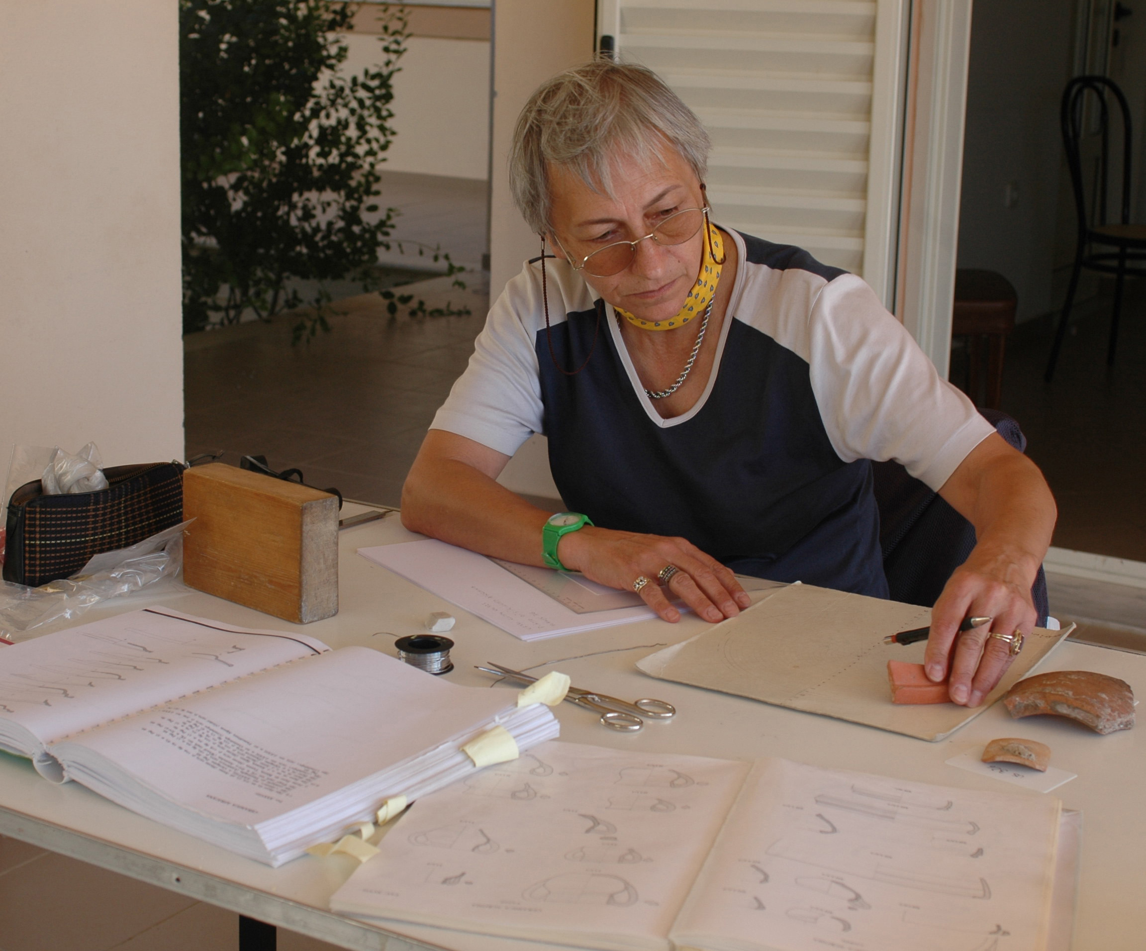 Portrait of Eleni Schindler-Kaudelka